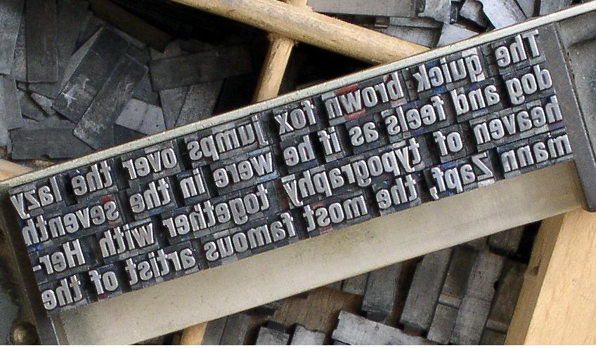 Movable type characters for printing. The plate says The quick brown fox jumps over the lazy dog and feels as if he were in the seventh heaven of typography together with Hermann Zapf, the most famous artist of the.